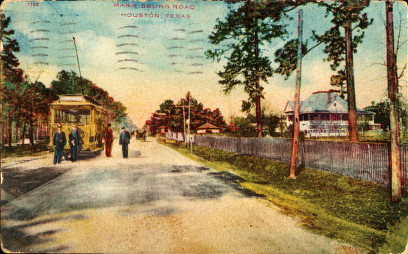 Street car, neighborhood, Houston, Texas